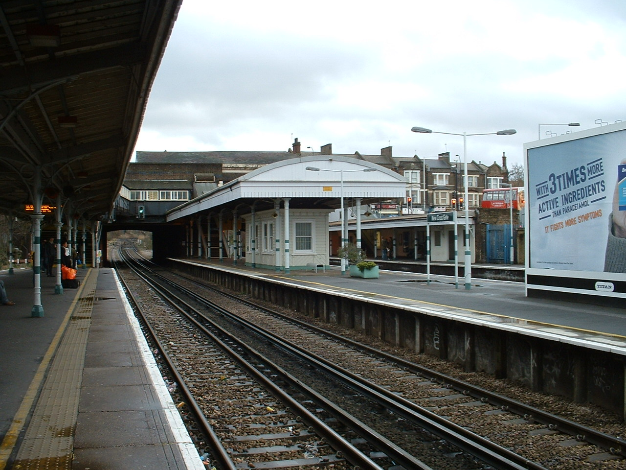 New Cross Gate railway station looking south, country-bound